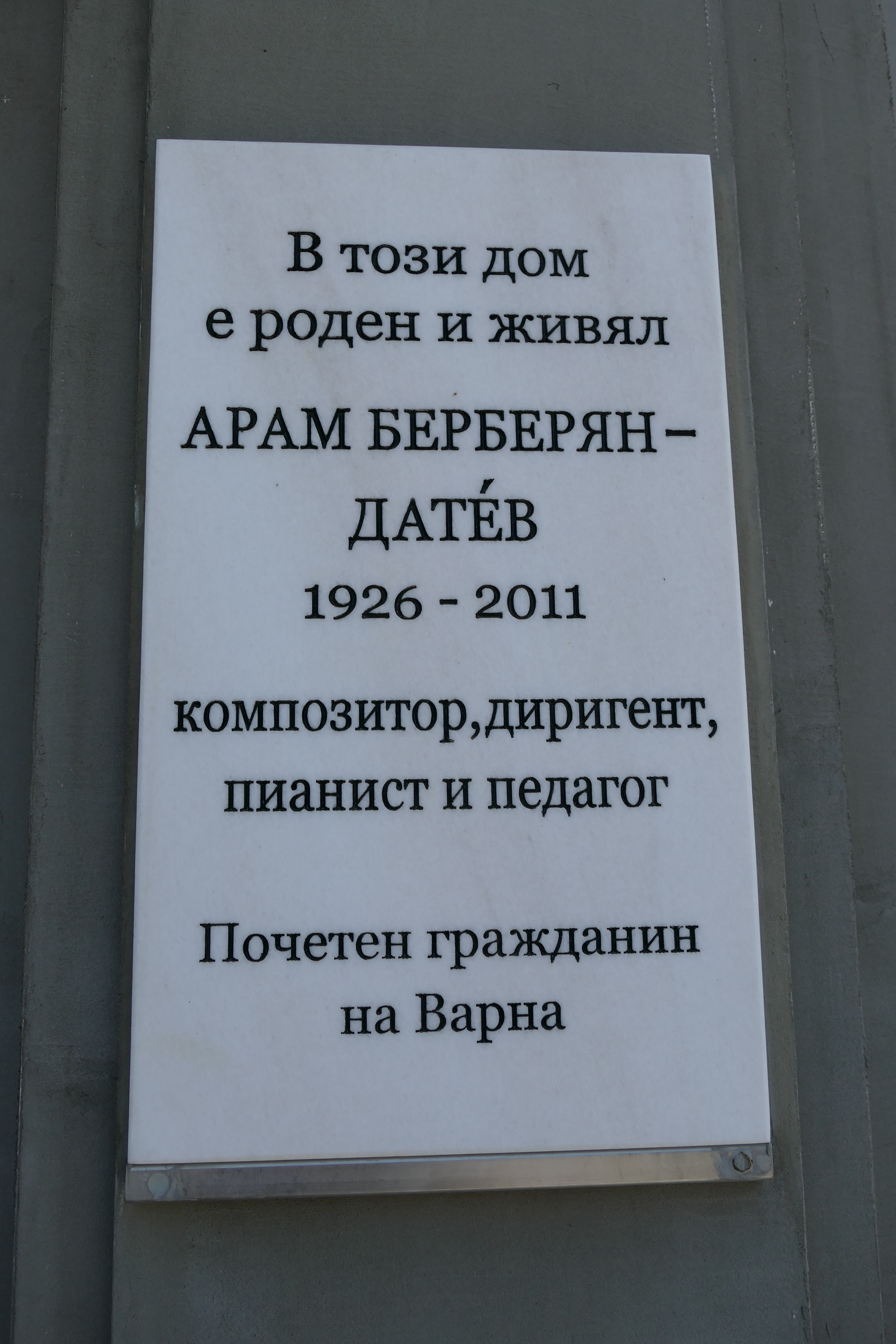 Memorial plaque of the composer and conductor Aram Berberyan-Datev in Varna, Bulgaria